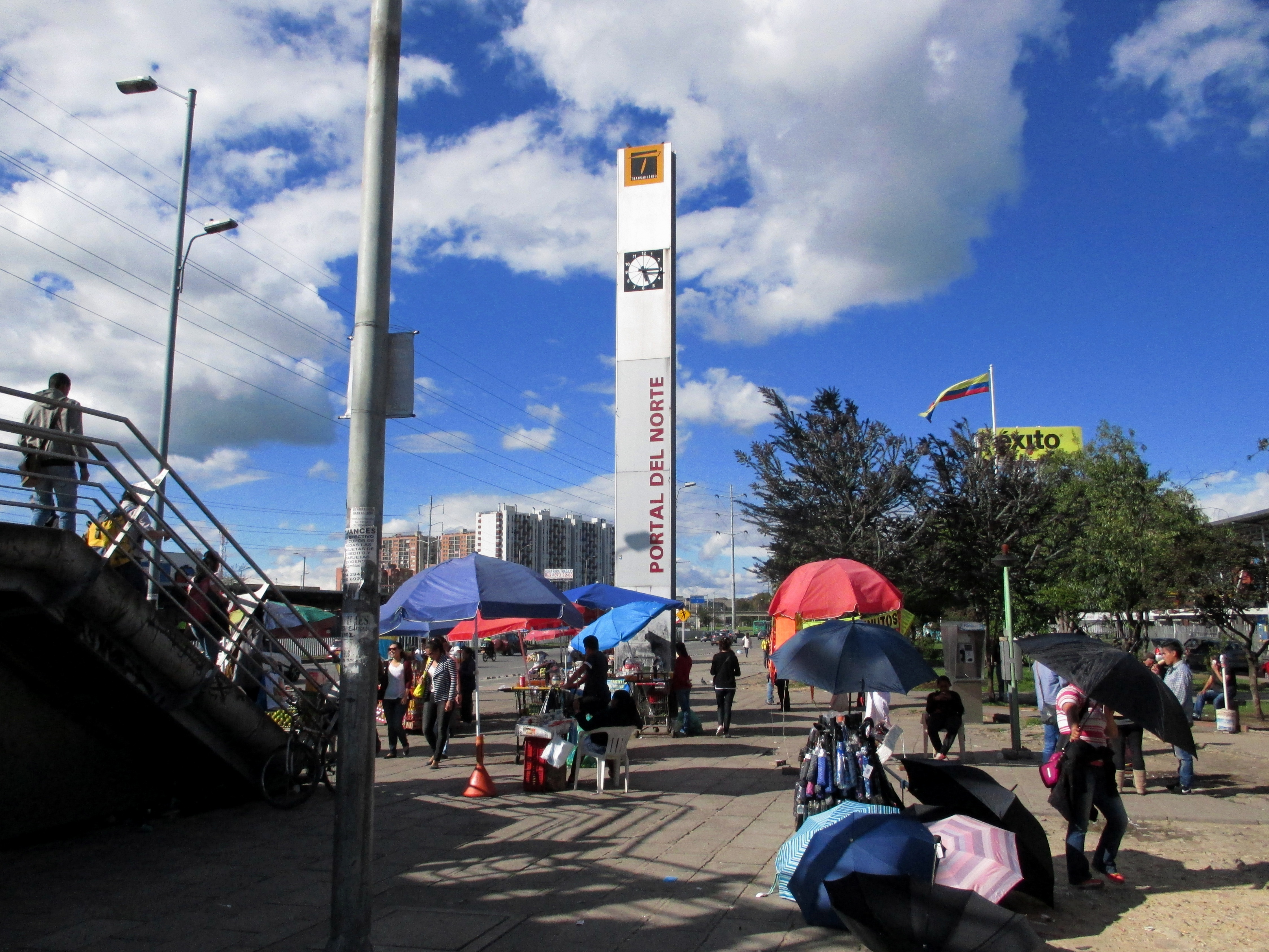 Bogotá